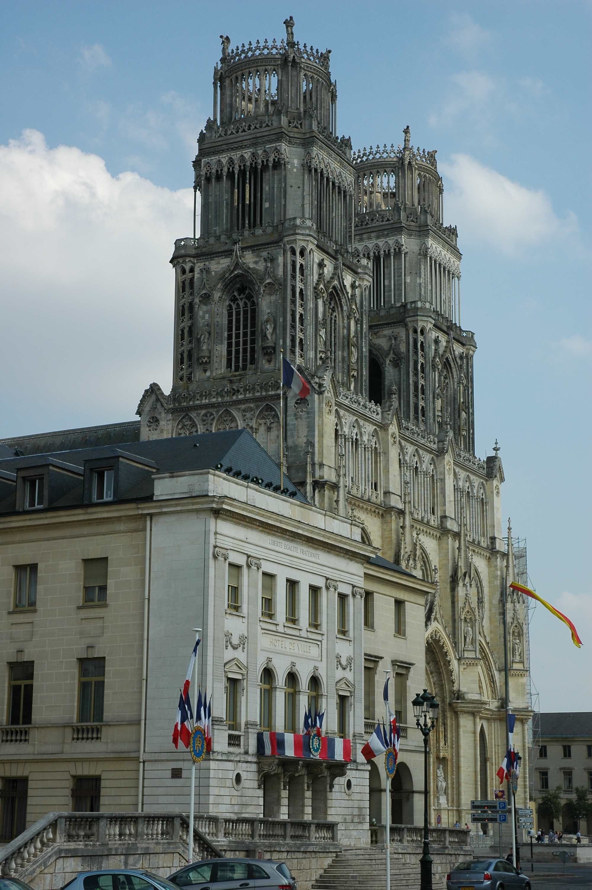 Orléans (France) : the city hall with the cathedral in the background. Photographie prise par / Photo taken by: GIRAUD Patrick